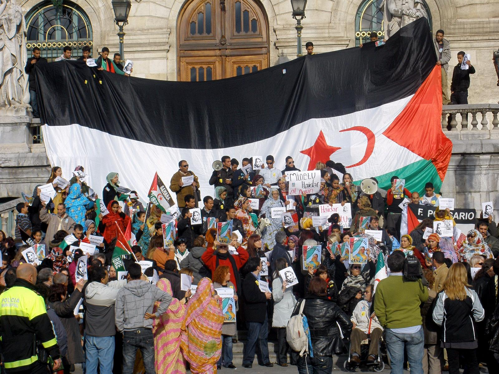 Public demonstration supporting Aminatu Haidar's hunger strike and the Sahrawi people's rights. Staged in Bilbao (Basque Country, Spain) on Dec 12, 2009